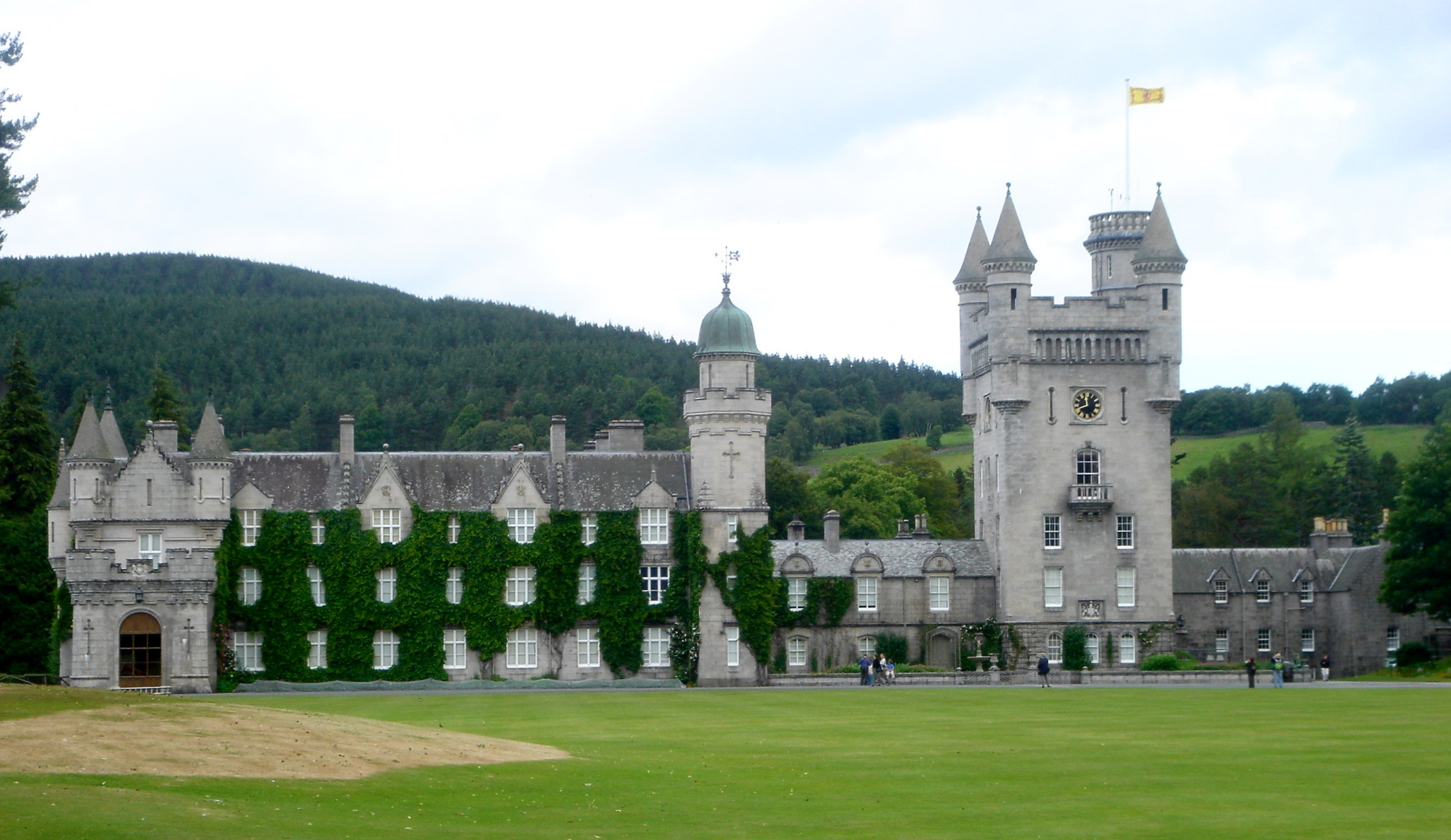 Balmoral Castle in Royal Deeside, Aberdeenshire, Scotland